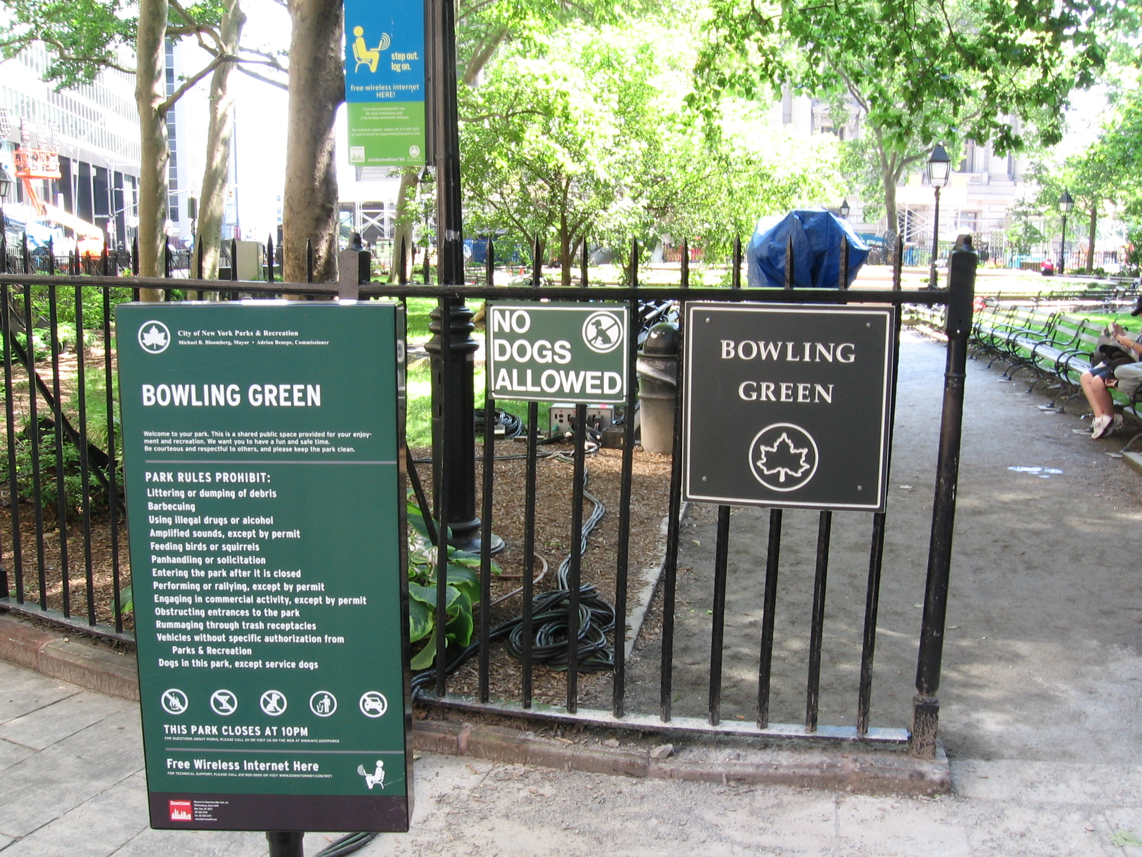 Extensive signage at the north entrance to Bowling Green park in Manhattan, New York City